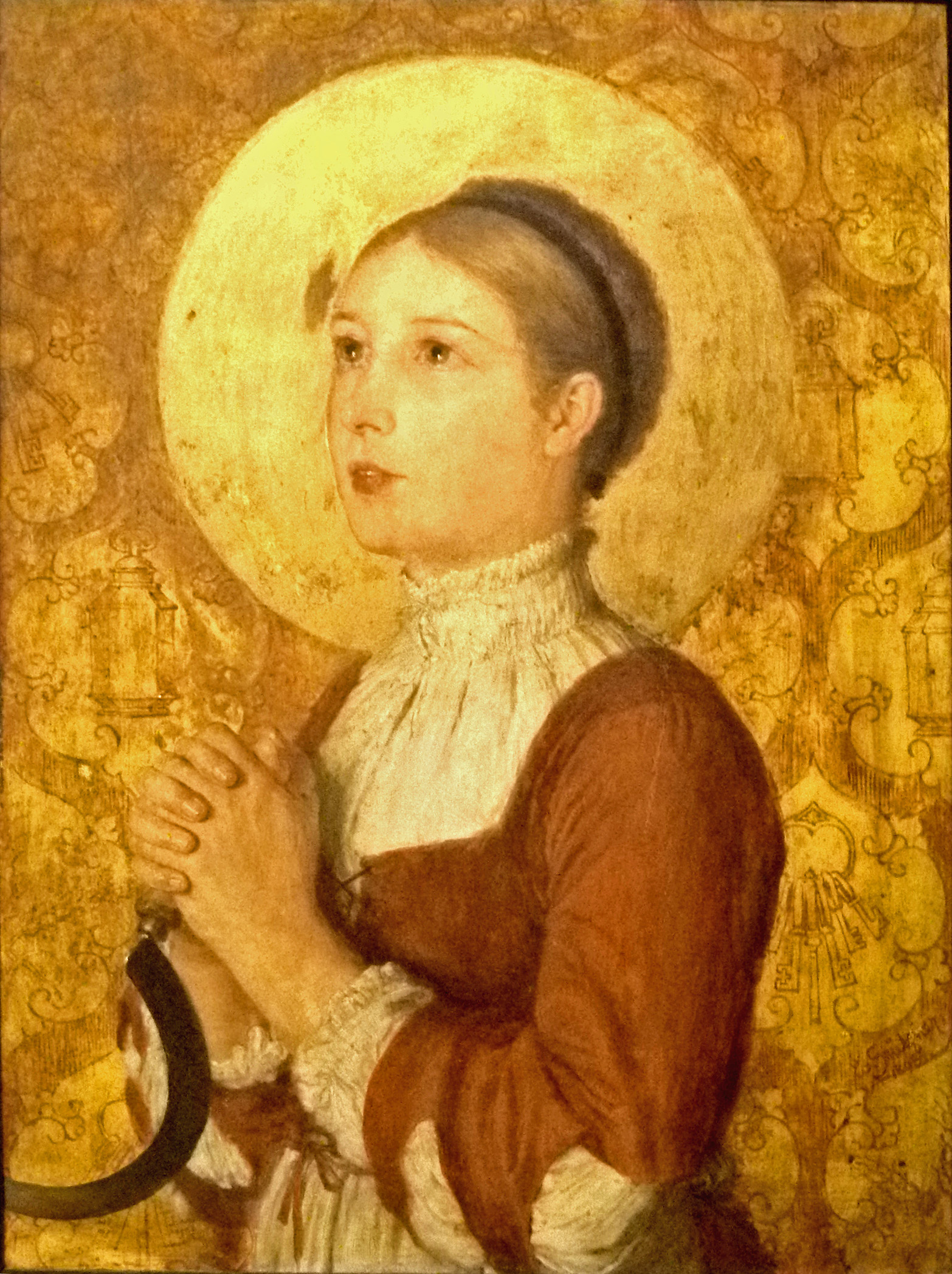 "Portrait of Saint Notburga of Rattenberg" by unknown author; Augustiner museum, Rattenberg, Austria